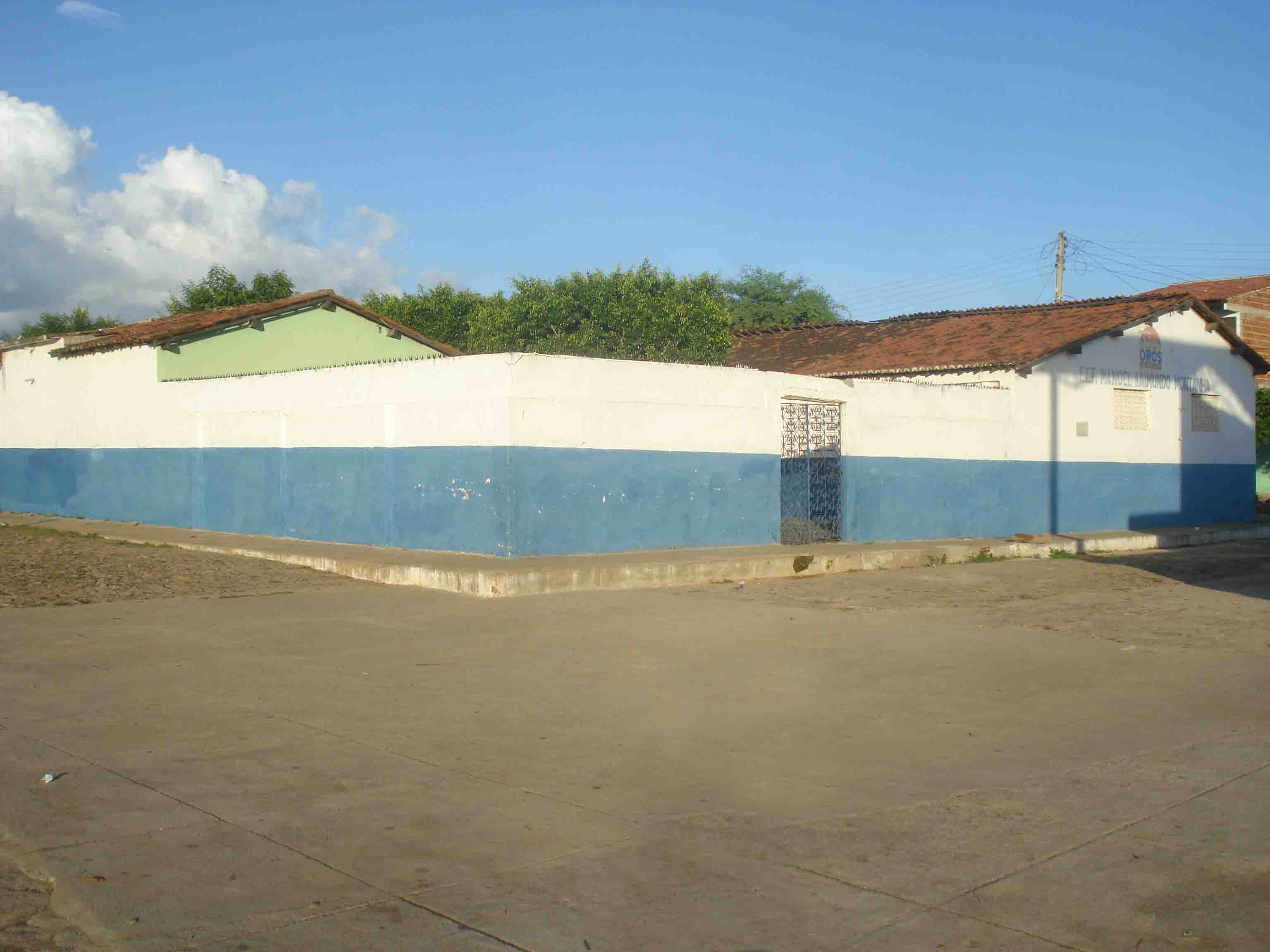 manoel 01